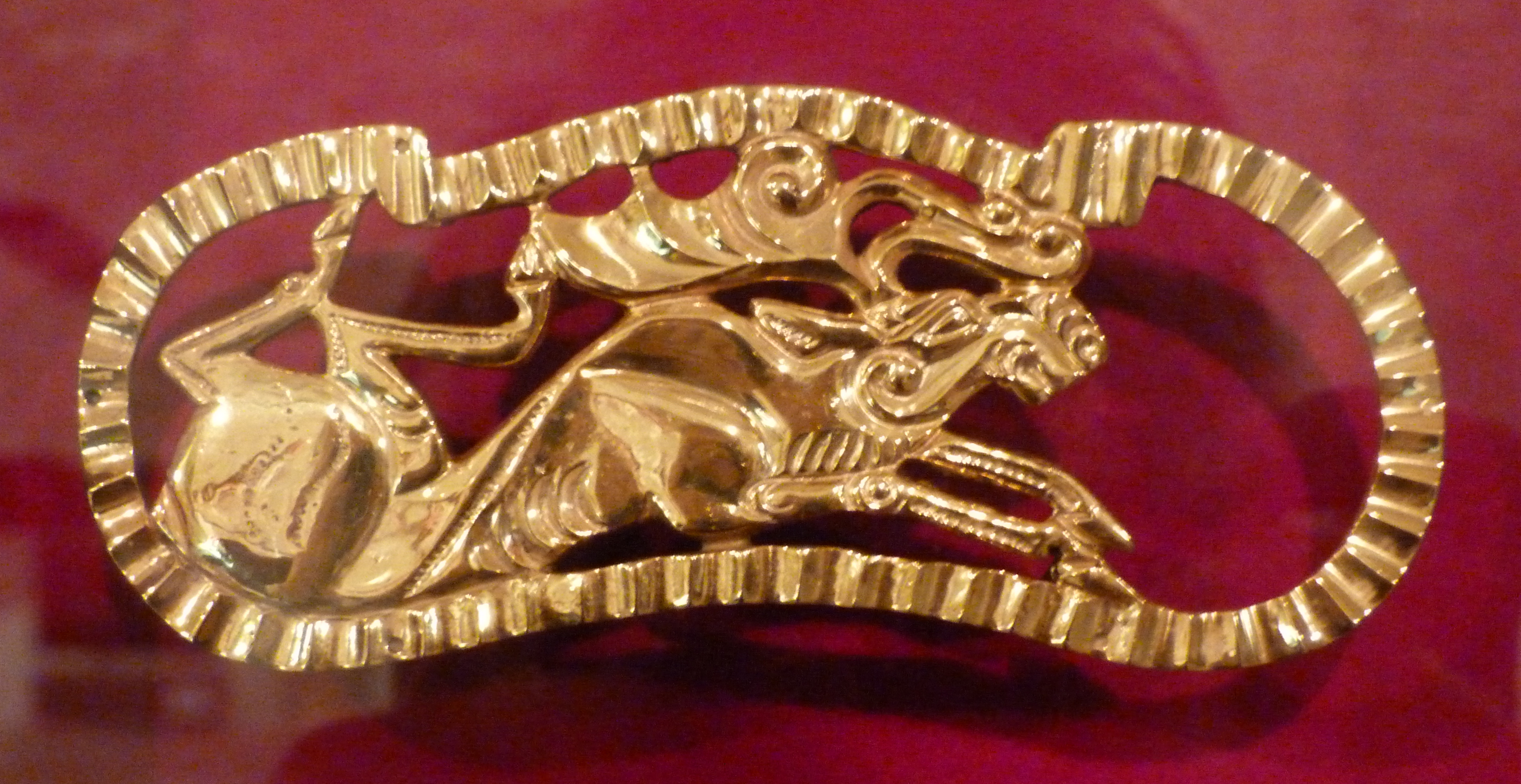 Empire of the Sun. Scytians ! Great, honorable men ! Remember the beginning of your way ! Live on the 13th of November, 2012, Budapest, VAM Design Center. Published under Creative Commons in the Metapolisz DVD line. All of the photos and vids in the Metapolisz DVD line are under Creative Commons and can be used even for commercial - for profit - purposes. Recommended citation: Derzsi Elekes Andor: Metapolisz DVD line Sources: Сенсационной называют свою находку археологи, обнаружившие в Карагандинской области «золотого человека» Sun emperor File:Sun_emperor.JPG Még mindig tagadnunk kell? Szkíta „aranyembert” találtak a kazah régészek A szkíta Napherceg Szkíta kincsekből nyílik egyedülálló kiállítás Budapesten: Badinyi-Jós Ferenc :a tatárlakai korong szövegének megfejtése: „Oltalmazónk! Minden titok dicső Nagyasszonya! Vigyázó két szemed óvjon, Napatyánk fényében!” Szathmáry megfejtése: „Egyetlen, magasztos Teljességünk leáldozóban, de Fény atyánk arca felemelkedik, ismét felragyog, s betölti dicsőségét!”